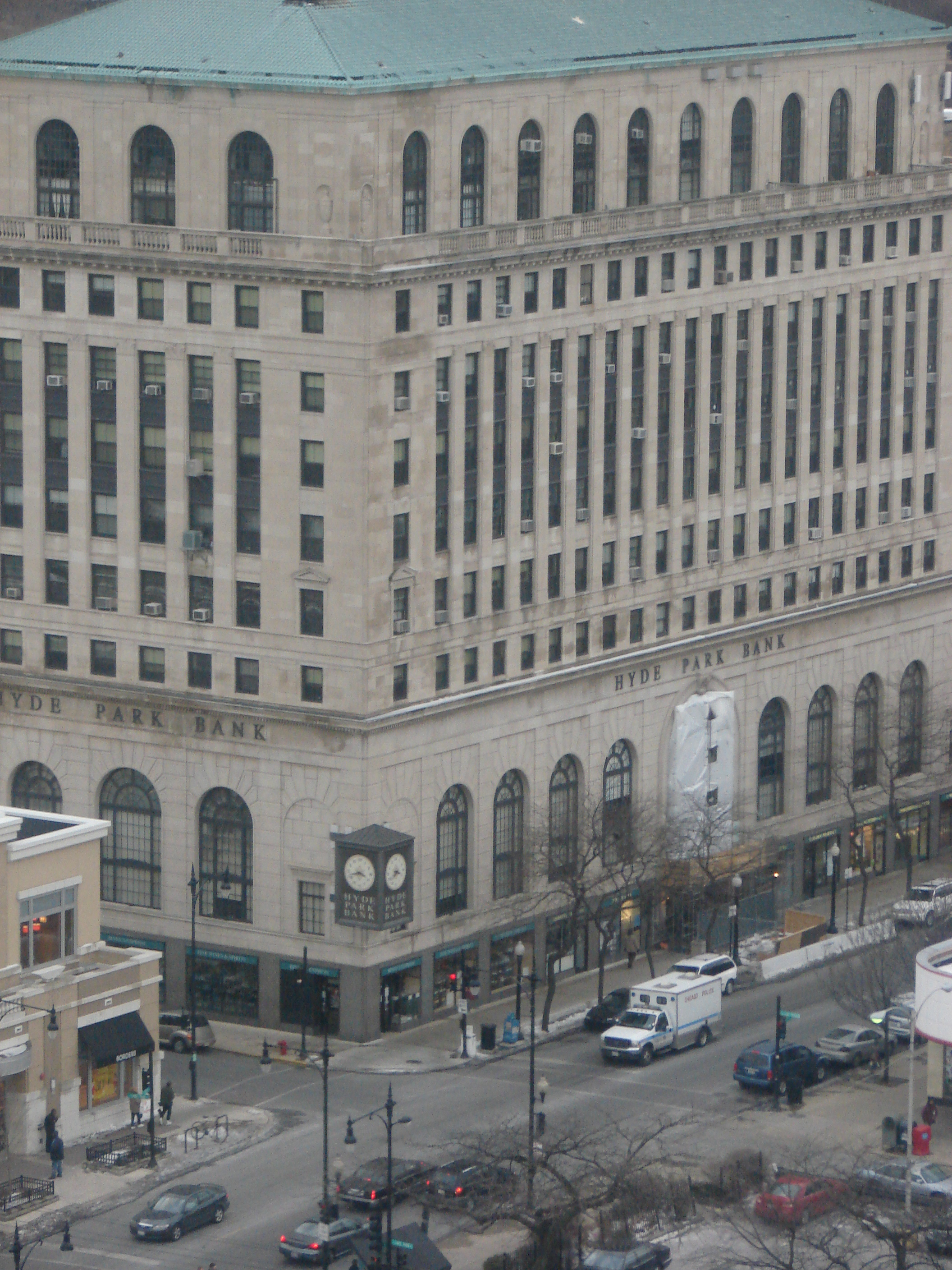 The Hyde Park Bank in December of 2006